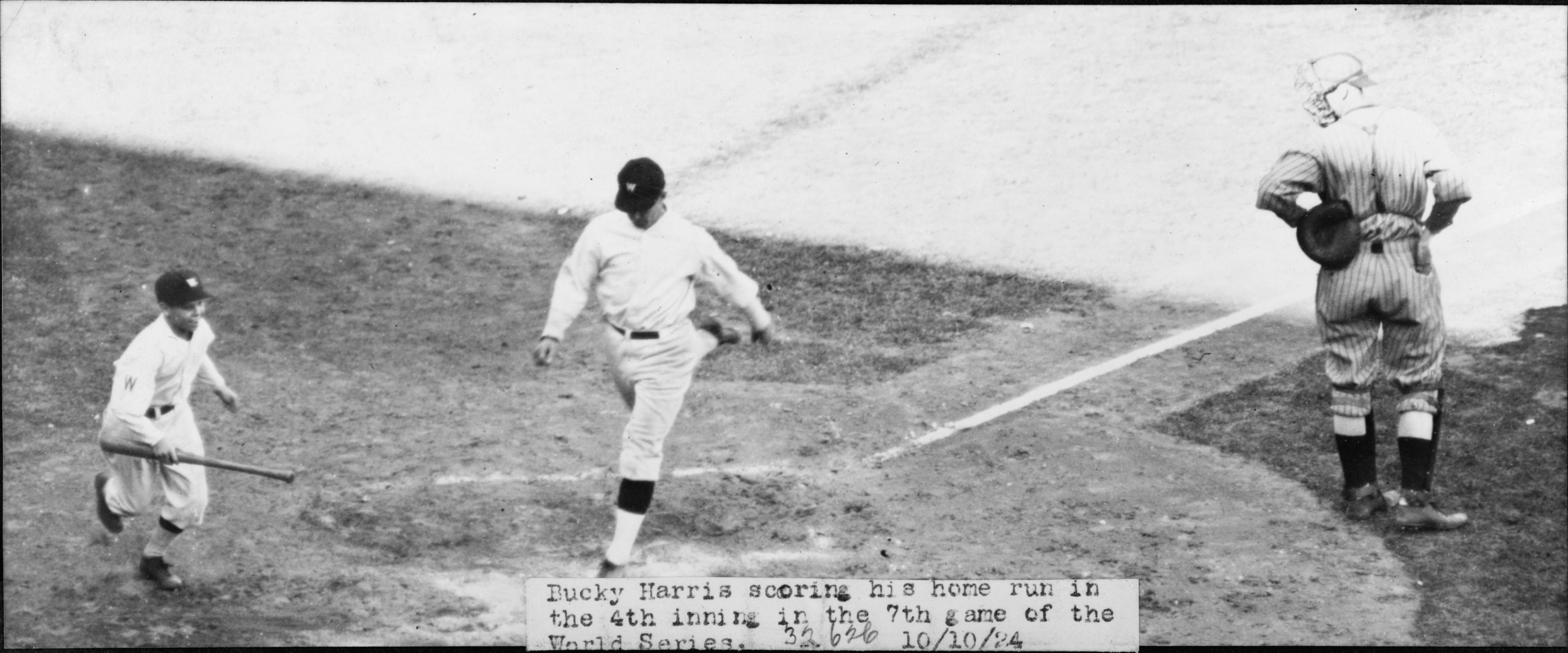 Bucky Harris of the Washington Nationals scoring his home run in the fourth inning of Game 7 (October 10) of the 1924 World Series. At right is New York Giants catcher Hank Gowdy.